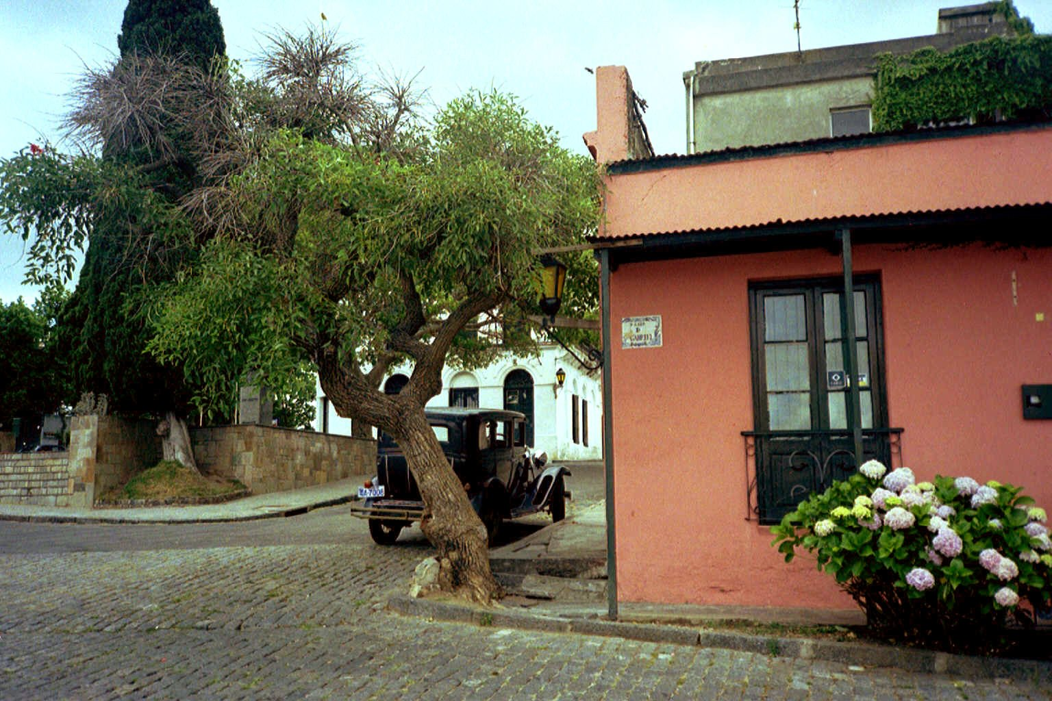 Colonia, Uruguay, street scene with vintage car